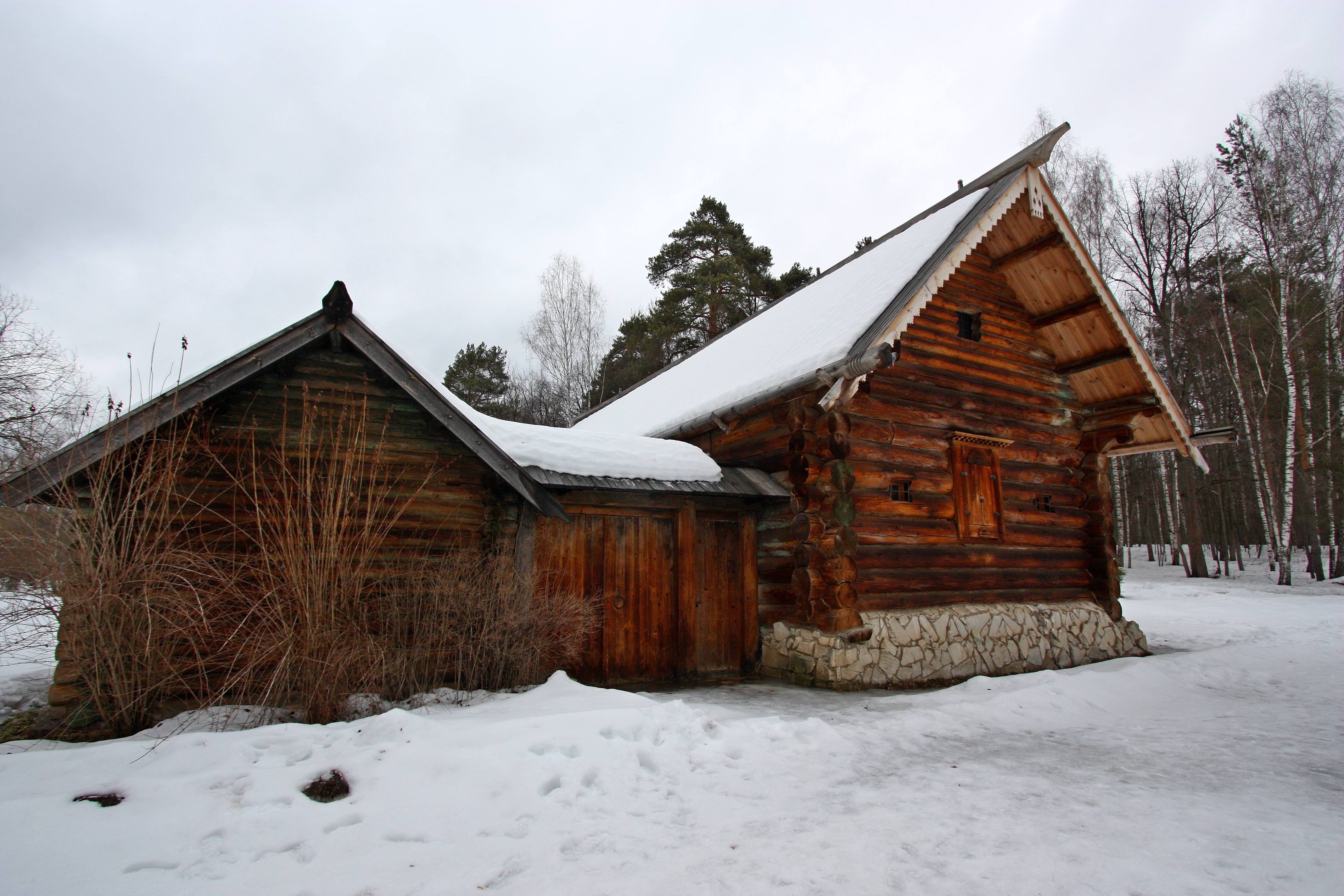 The estate of peasants Komarinyh of the nineteenth century. End view. Museum of wooden architecture on the river Istra at the new Jerusalem monastery. Istra, Istrinsky G. O., Moscow oblast, Russia.